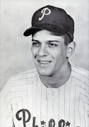 Philadelphia Phillies pitcher Art Mahaffey in a 1961 issue of Baseball Digest.